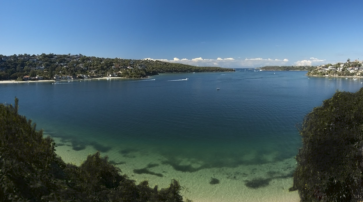 Headlands. Scene shows North and South Head in the distance with a nice harbour and bay in the foreground. If you were to follow the water around to the left you would encounter Spit Bridge just around the corner. Nikon D50, panorama of around 15 images.